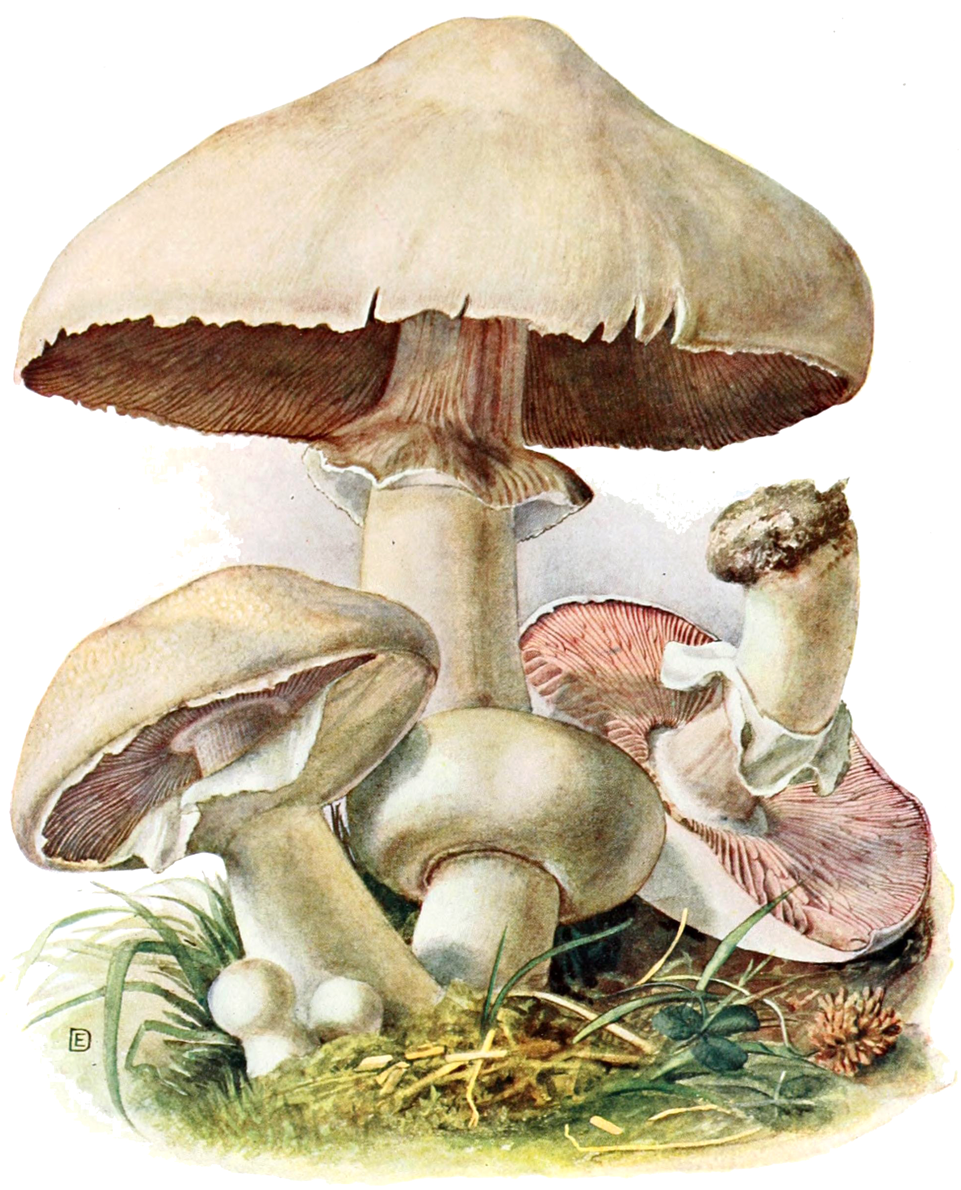 Agaricus campestris.